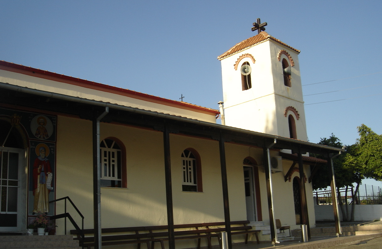 The main Church of Koimisi tis Theotokou, at Elafos.